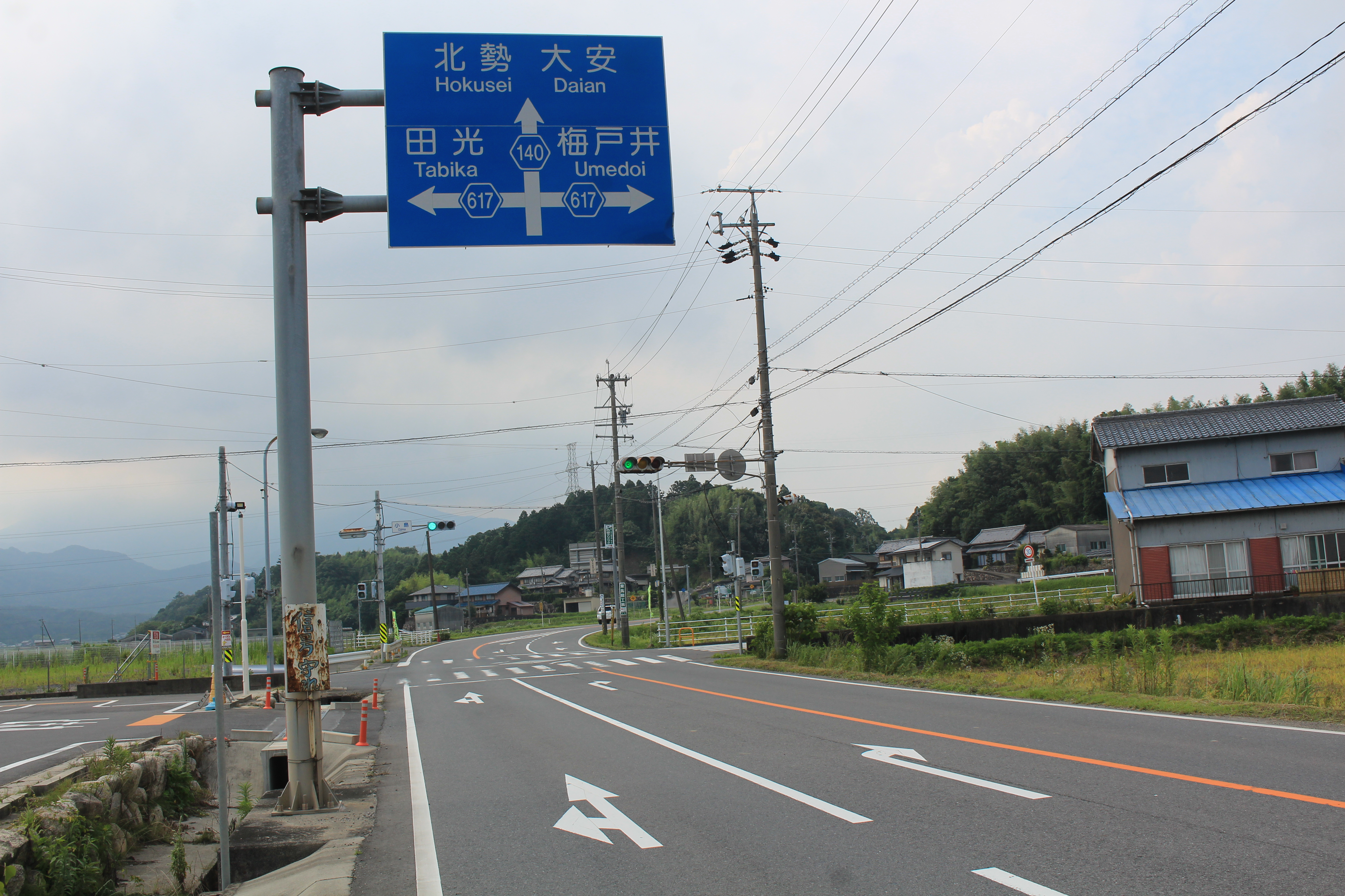 Mie Prefectural Road Route 140 and Mie Prefectural Road Route 617 in Ojima, Komono, Mie Prefecture, Japan.